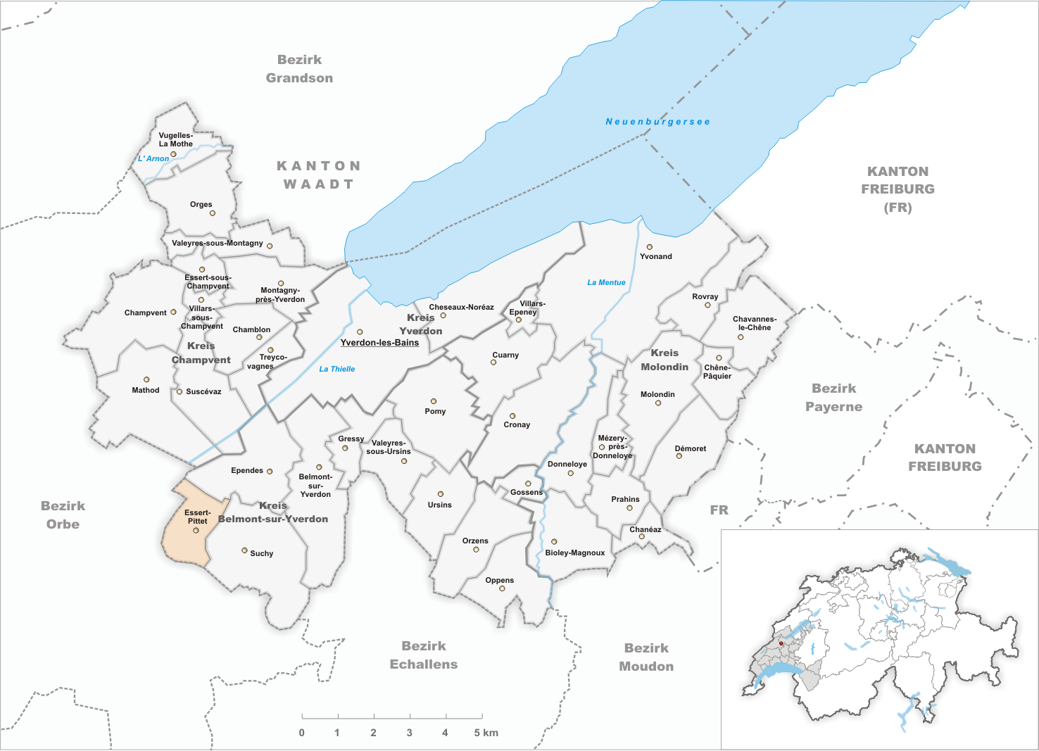 Municipality Essert-Pittet